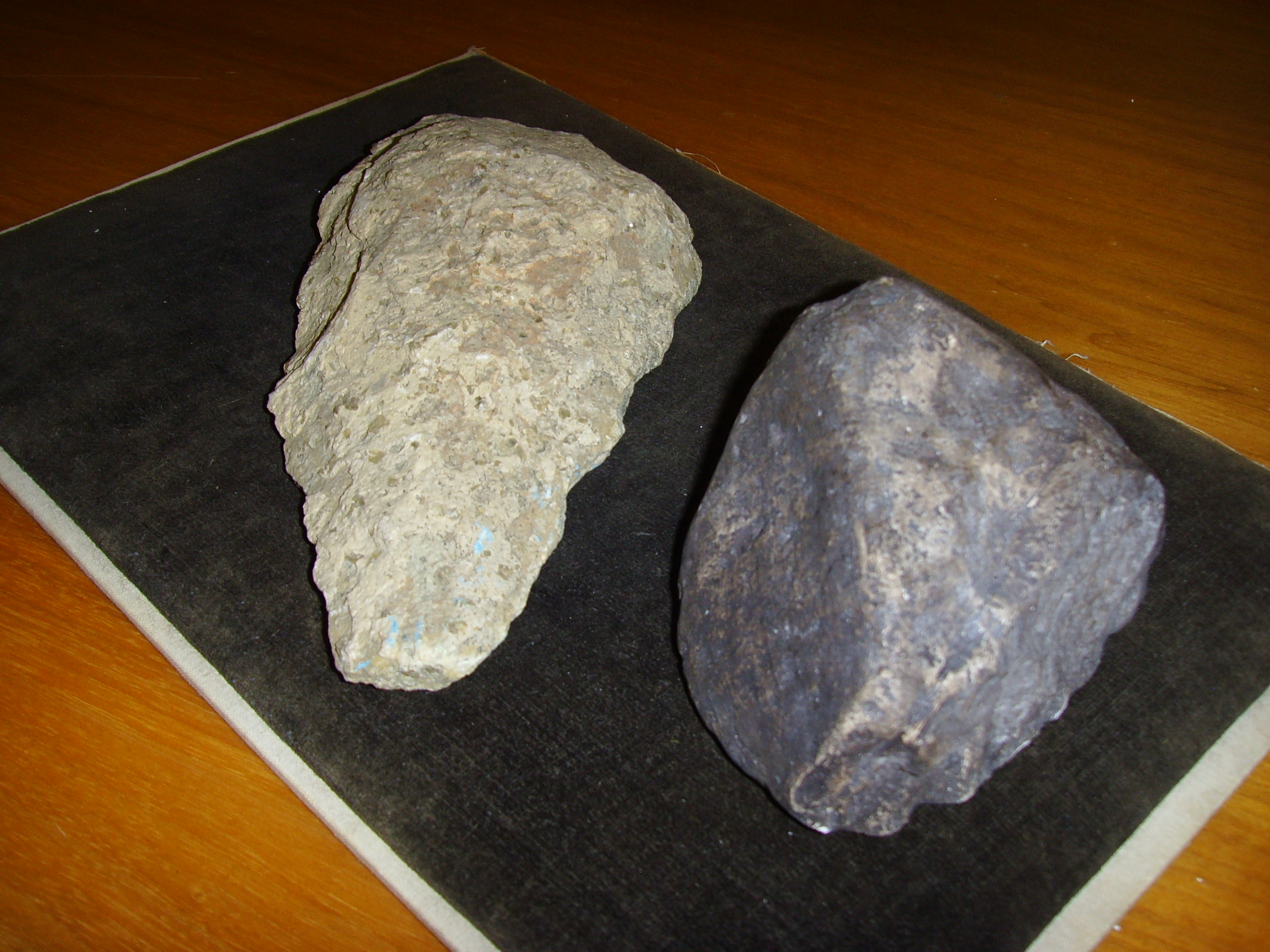 Stone tool (Oldowan style) from Dmanisi, Georgia (right, 1,8 mya, replica), to be compared with the more "modern" Acheulean style (left)